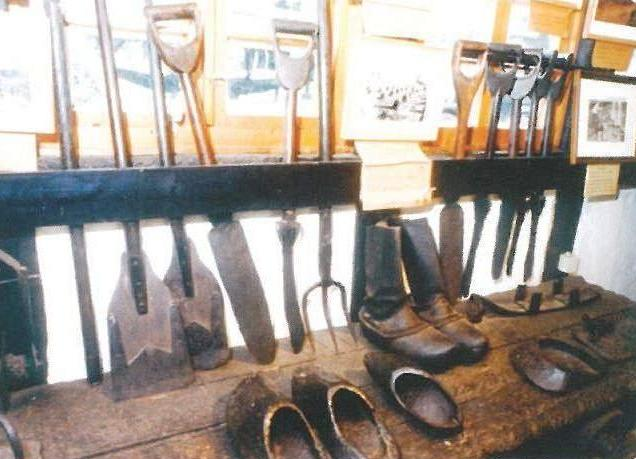 Torfschiffswerft Schlussdorf: Manuel with tools for peat-cutting ans clog-making.